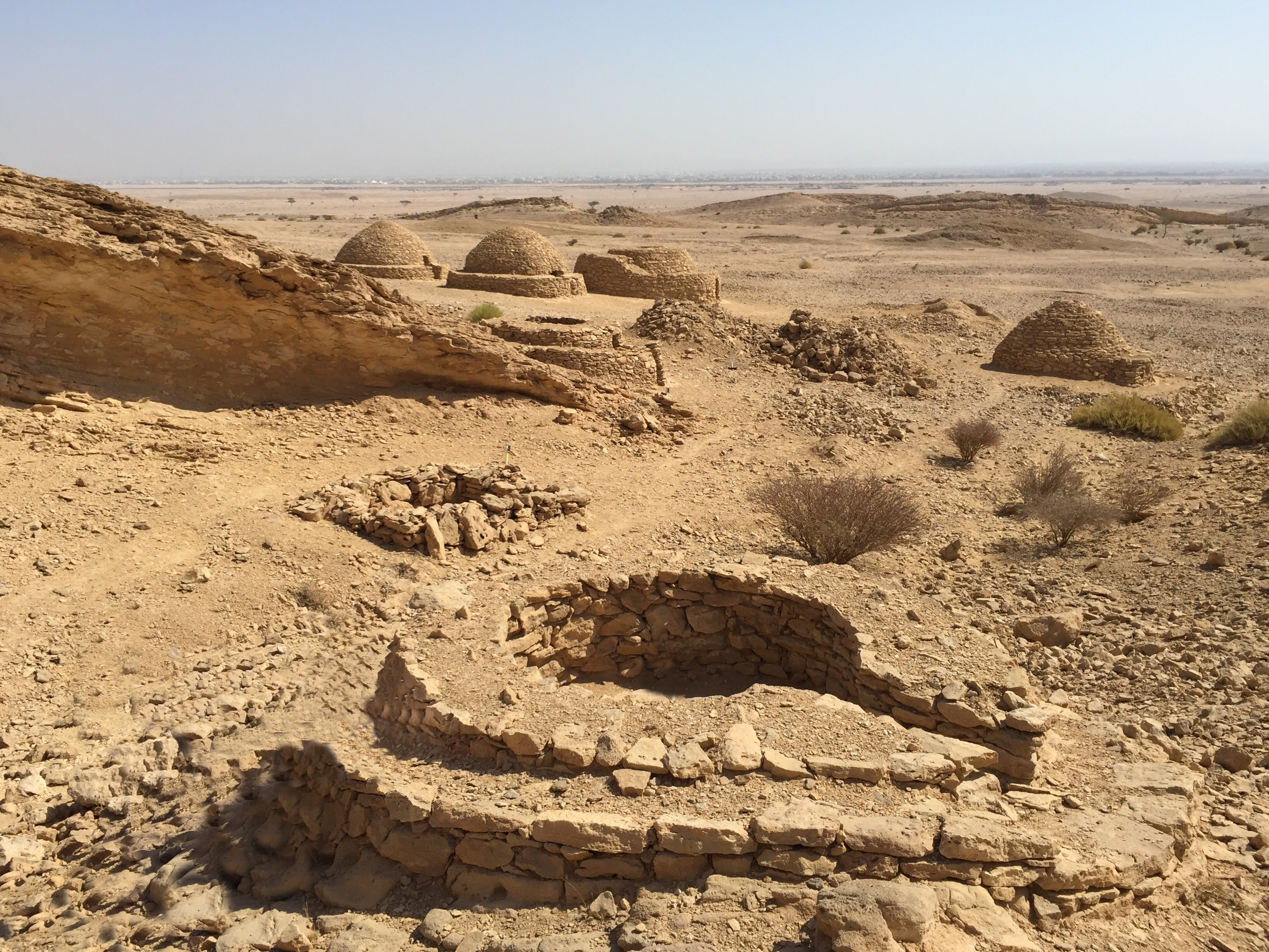 The mysterious 5000 year old Jebel Hafeet tombs at the base of the mountain